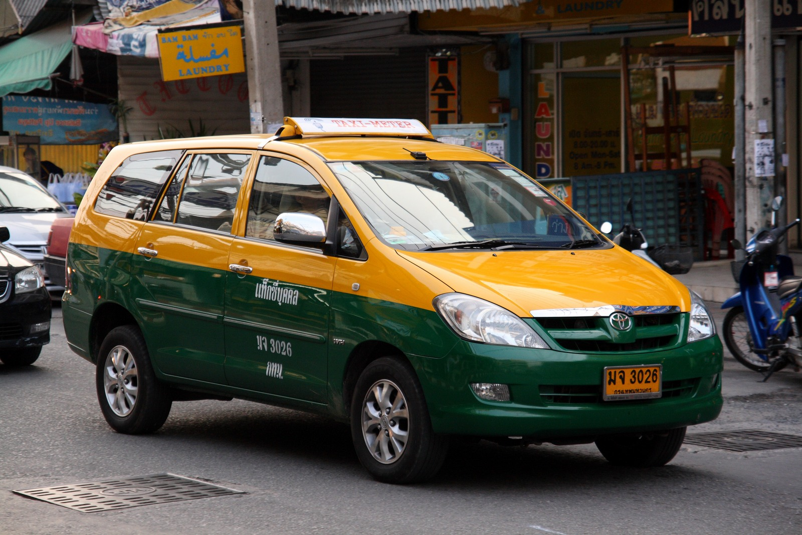 Taxi-meter in Pattaya (Toyota Innova)